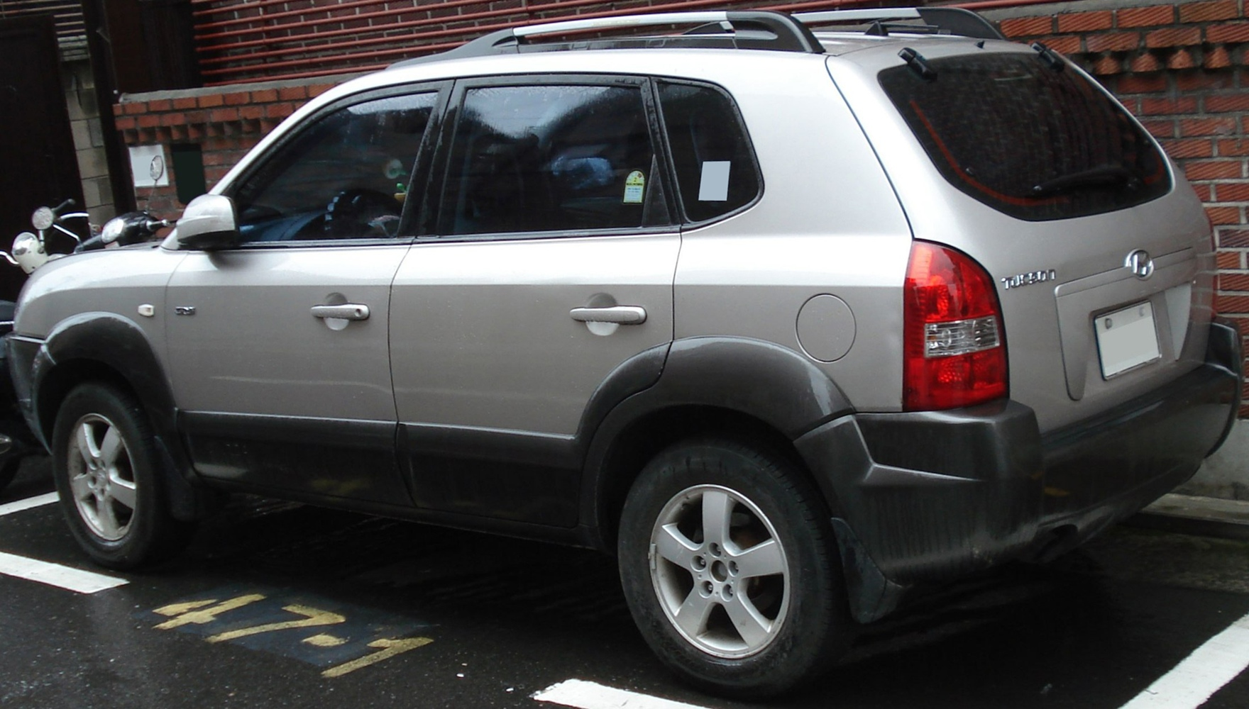 Hyundai Tucson